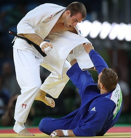 2016 Summer Olympics Judo, August 9